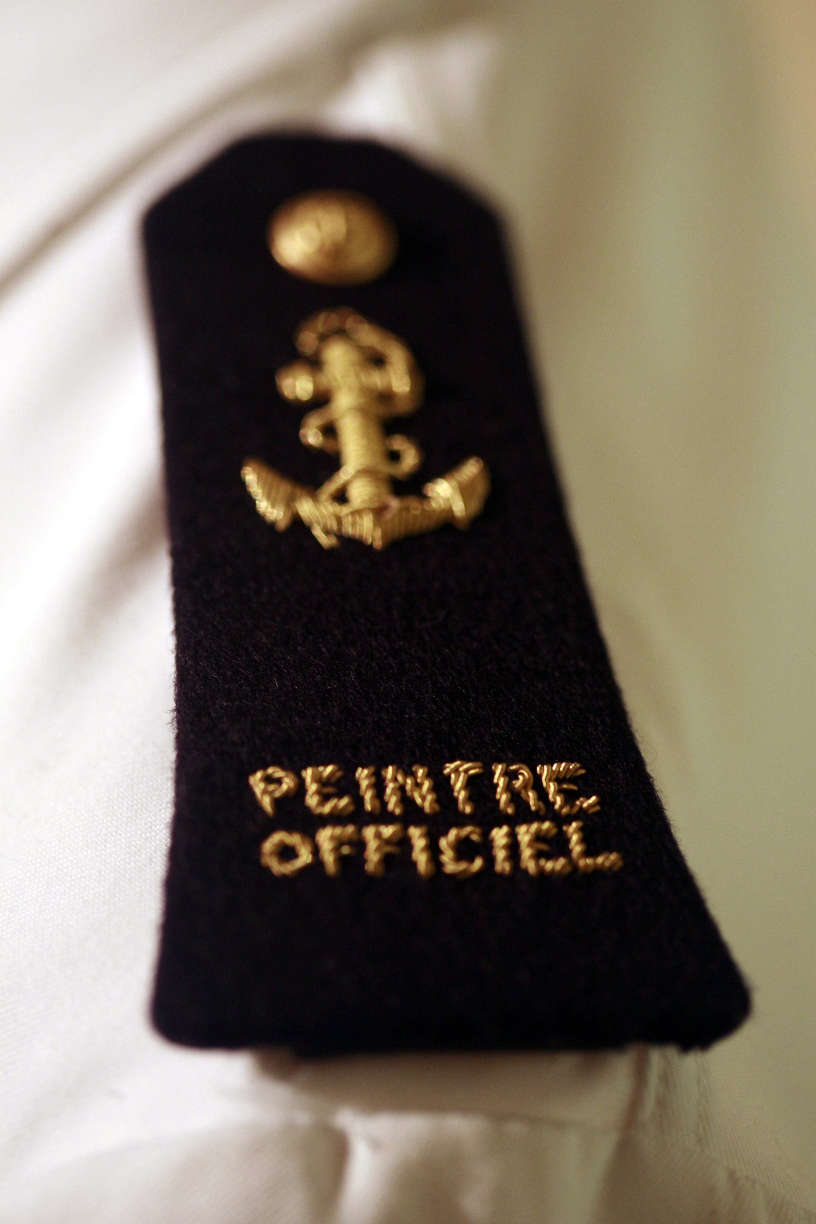 Shoulder insignia of a Peintre de la Marine. This particular uniform belonged to André Hambourg.